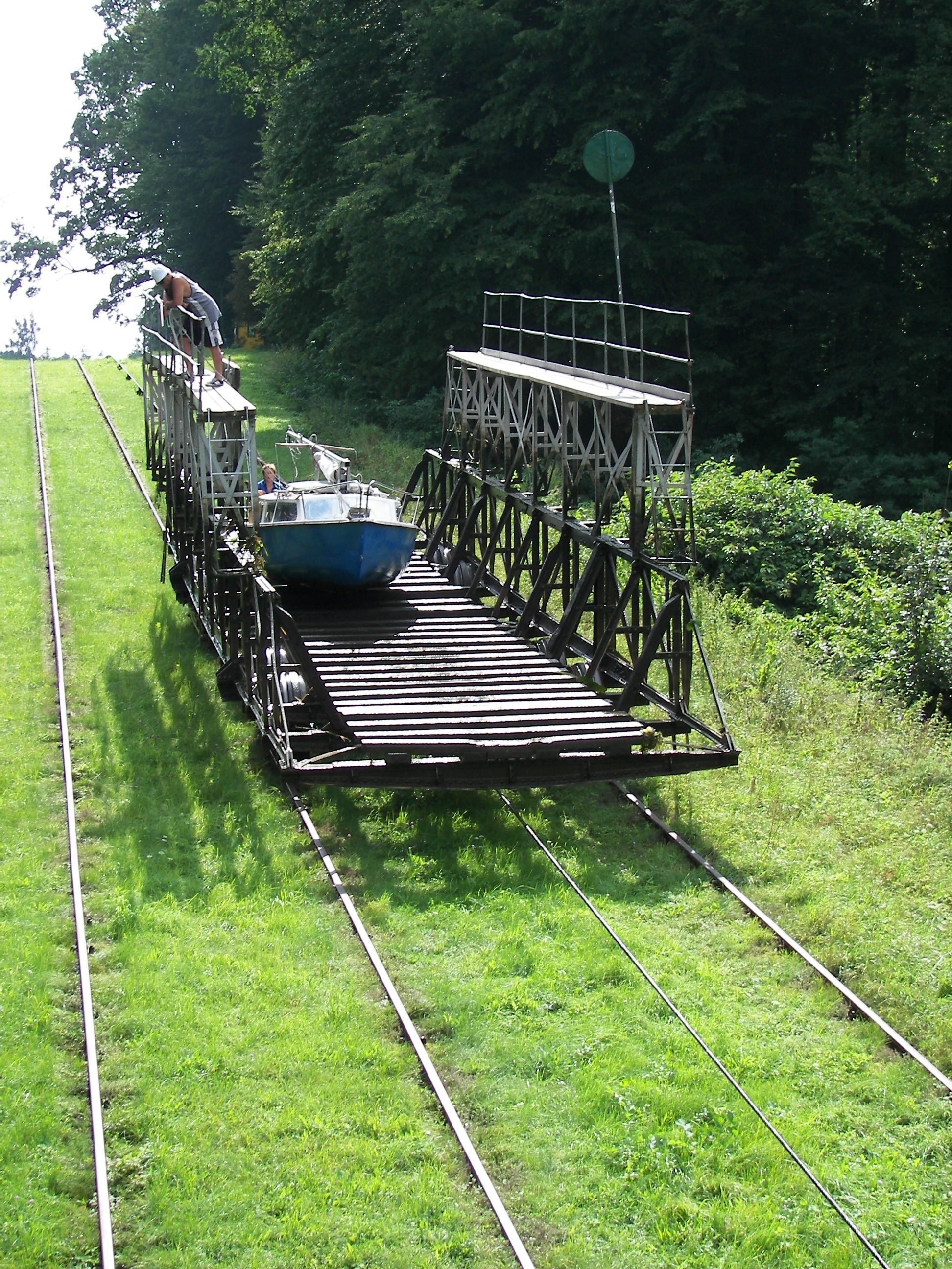 Elbląg Canal, Poland